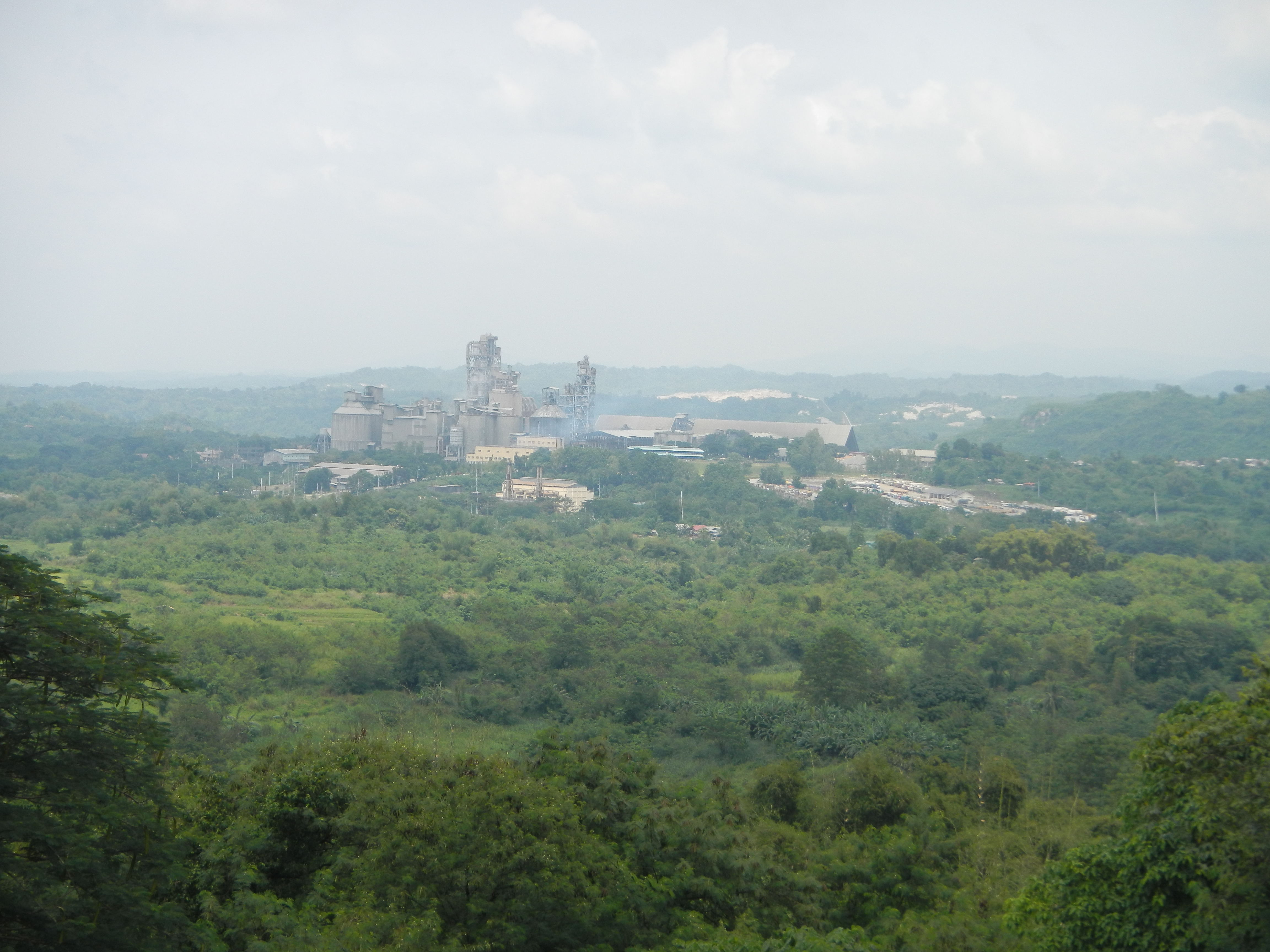 Norzagaray, Bulacan[1] Holcim[2] cement factory, Minuyan